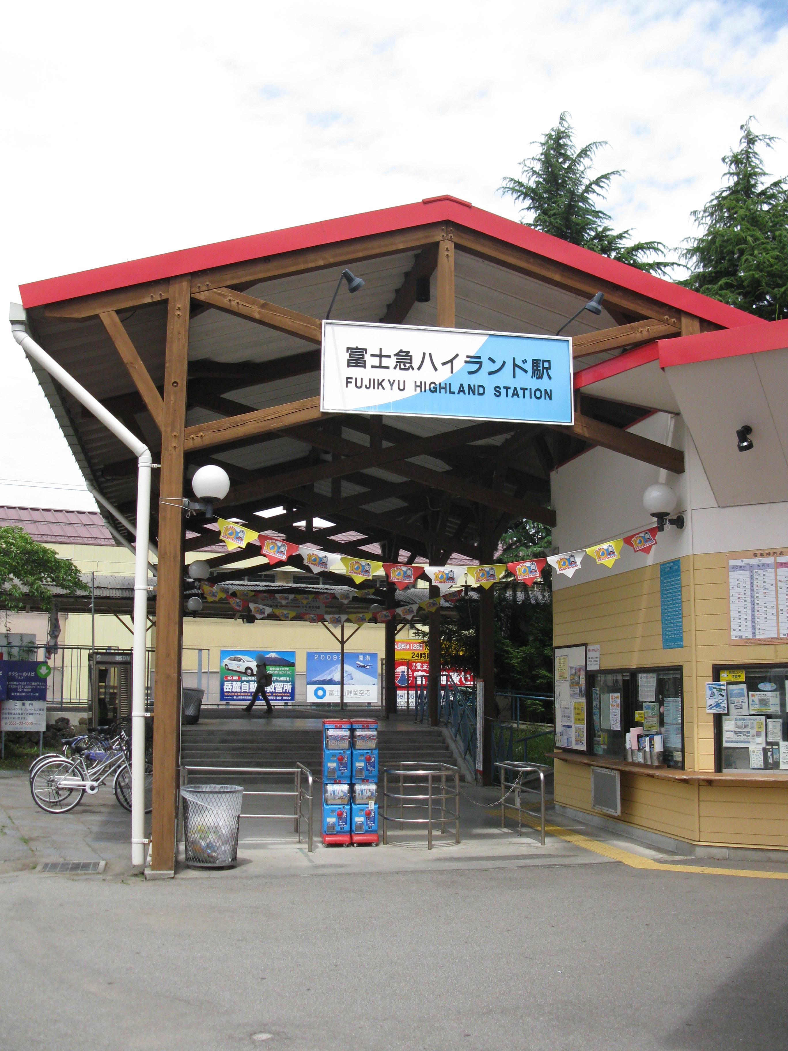 Fujikyu Highland Station entrance (Fuji Kyuko Kawaguchiko Line)